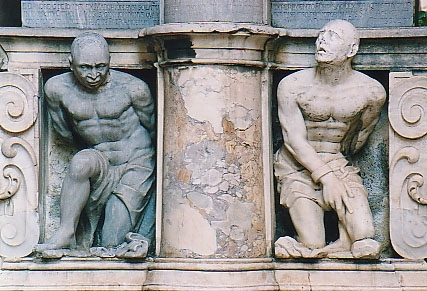 Church